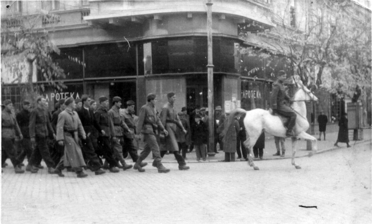 Liberation of Subotica in October 1944